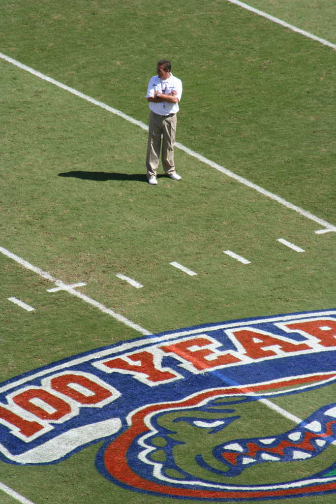 Urban Meyer watching his 2006 National Championship team warm up on Florida Field